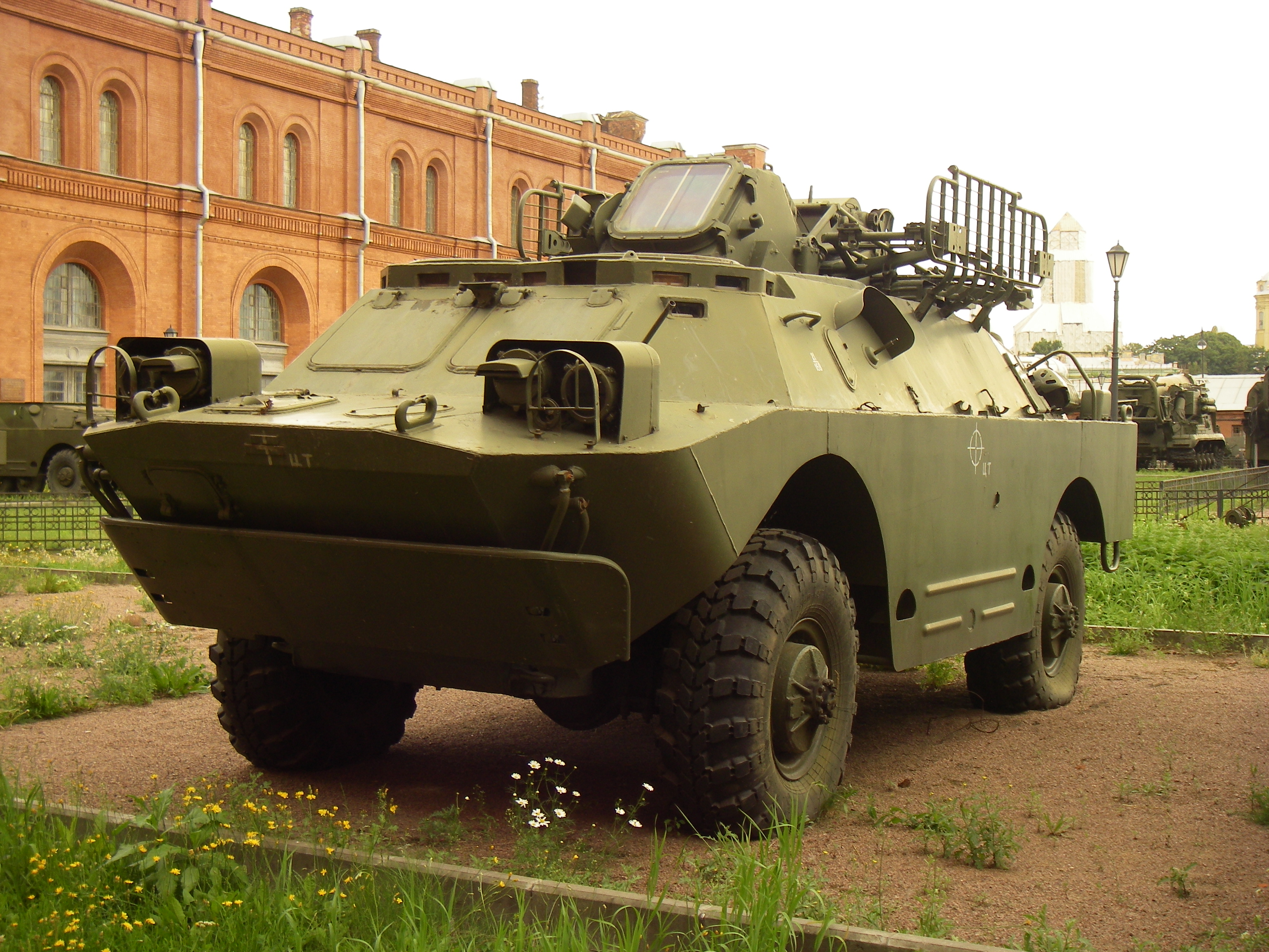 9P31 TEL with 9M31 missiles of surface to air missile complex 9K31 «Strela-1» in Saint Petersburg Artillery museum